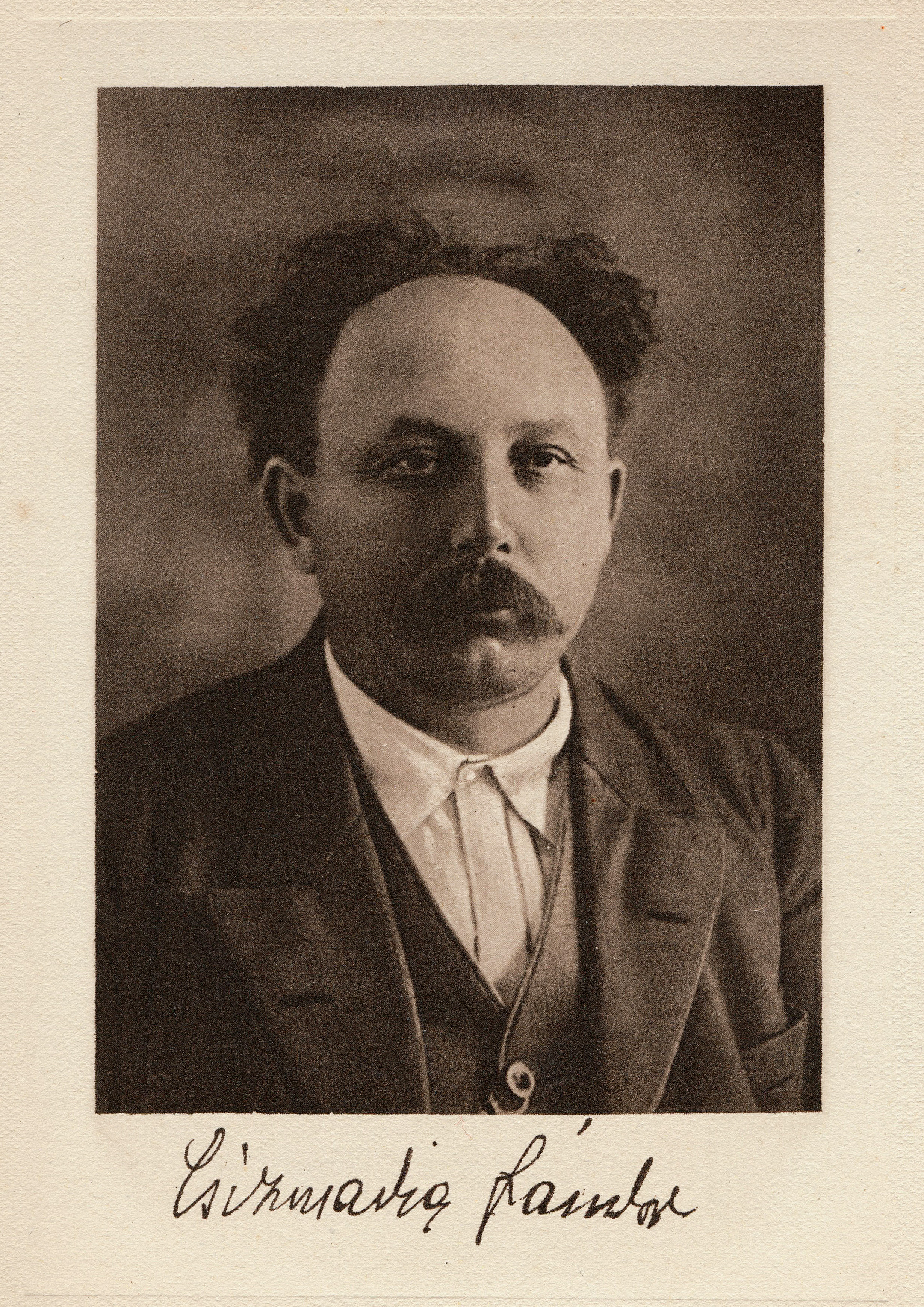 Sándor Csizmadia (1871-1929) Hungarian writer